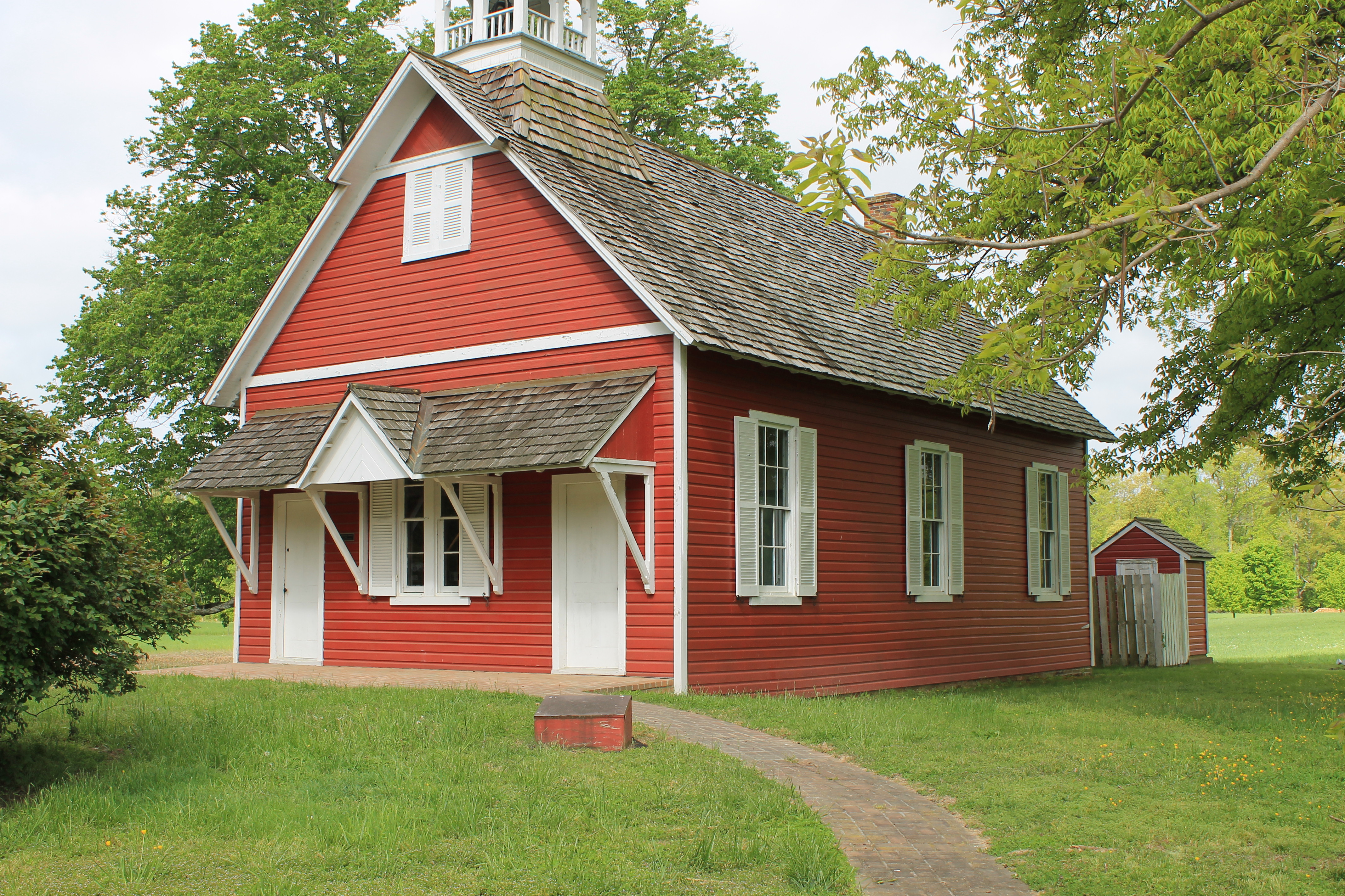 Longswood School House in Talbot County, Maryland.